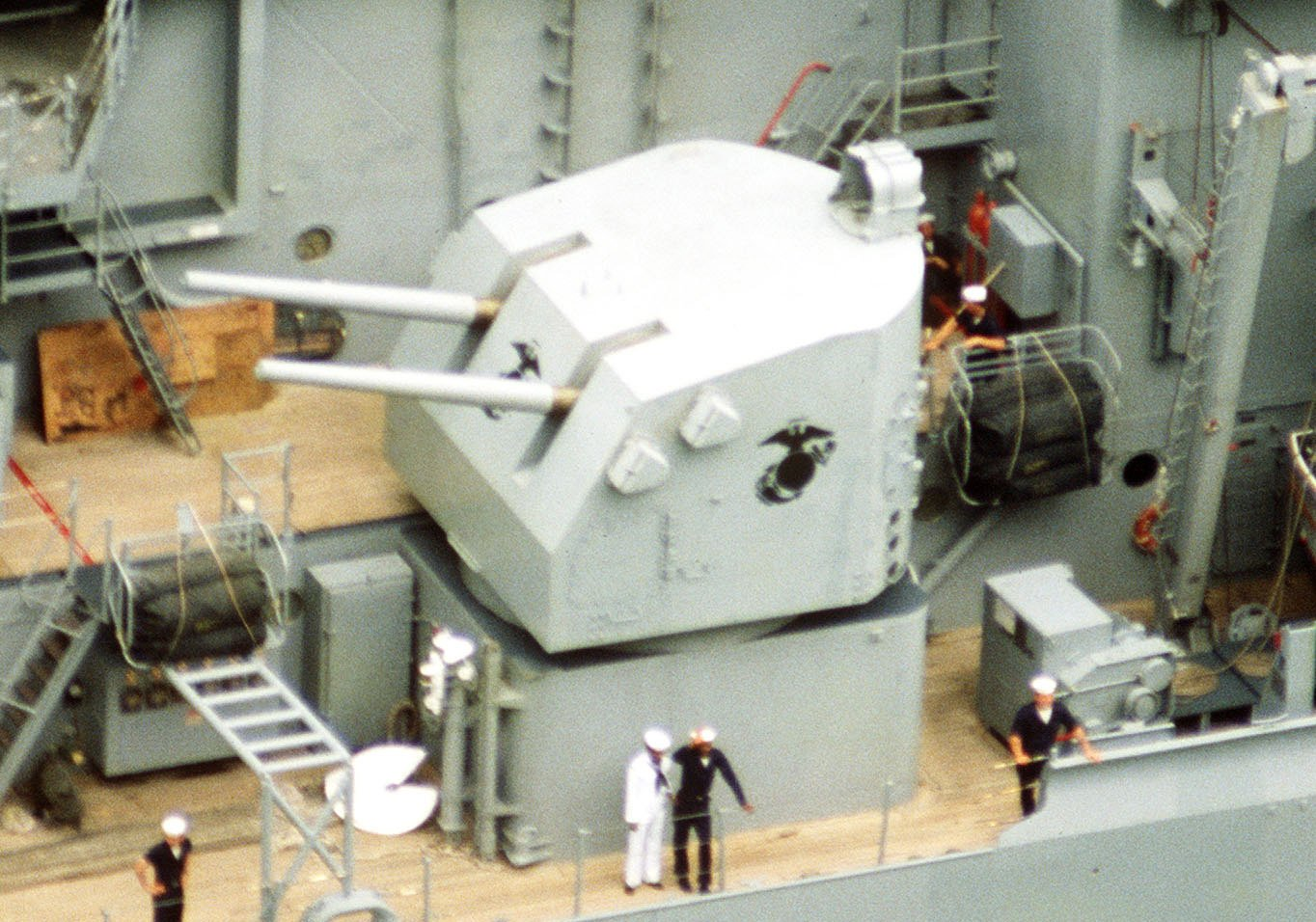 The 5-INCH .38-CALIBER dual gun mount on the starboard side of the USS NEW JERSEY (BB 62) during the battleship's transit across the Continental Divide at the Gaillard Cut.